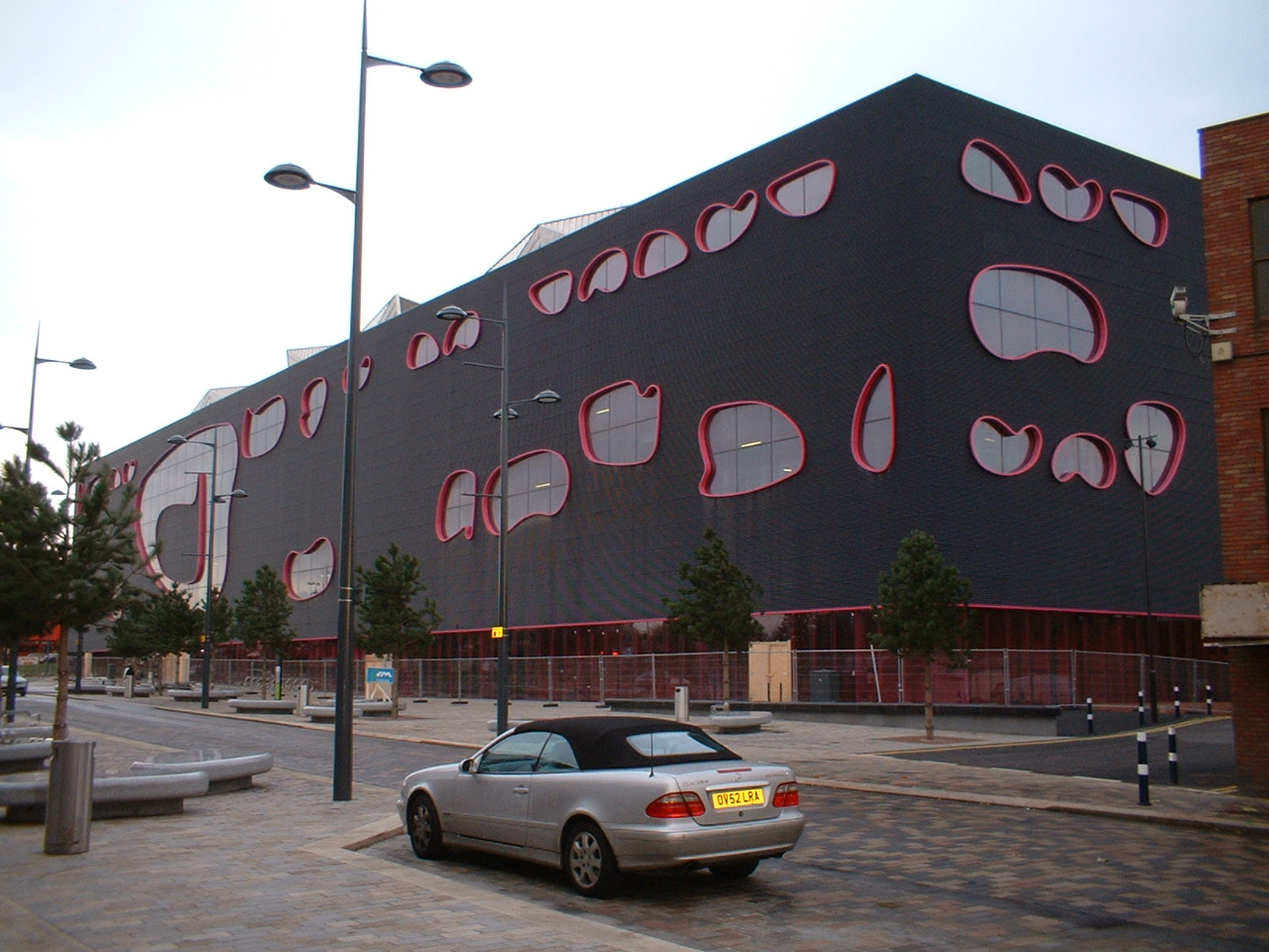 The Public, West Bromwich, from the north west